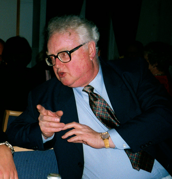 Göran Ravnsborg (1933-2006), senior lecturar at the Faculty of law at Lund University and local profile in Lund at a dinner at Akademiska Föreningen, March 2002. Photographer: Fredrik Tersmeden (=